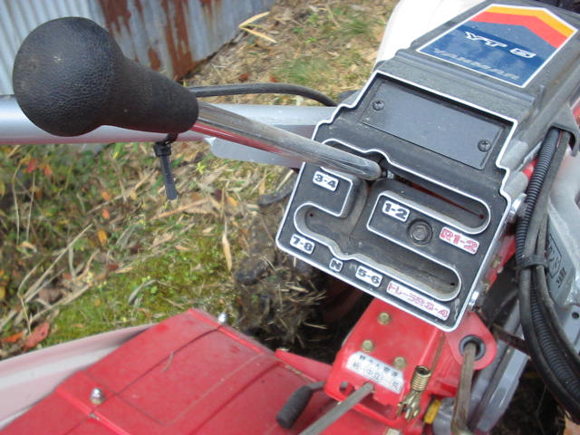 An example of a shifting lever for a Yanmar rotary tiller.